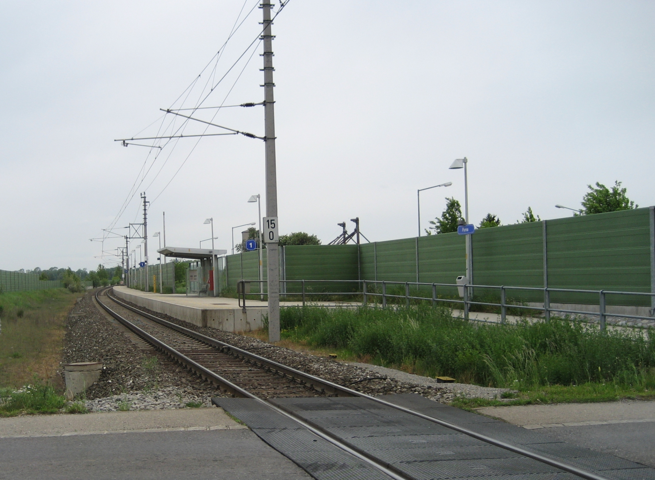 Train station Pama in Burgenland